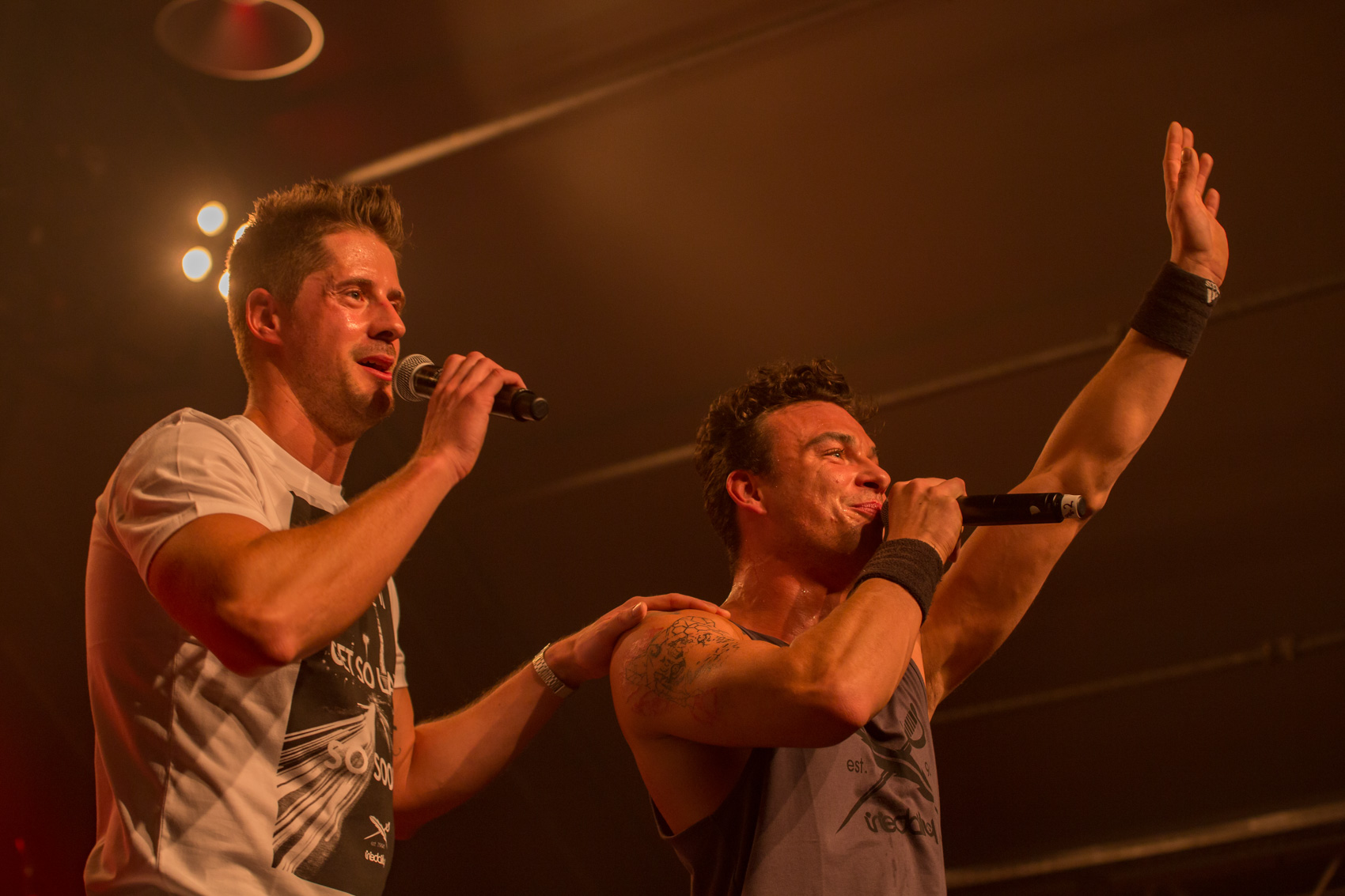 SDP